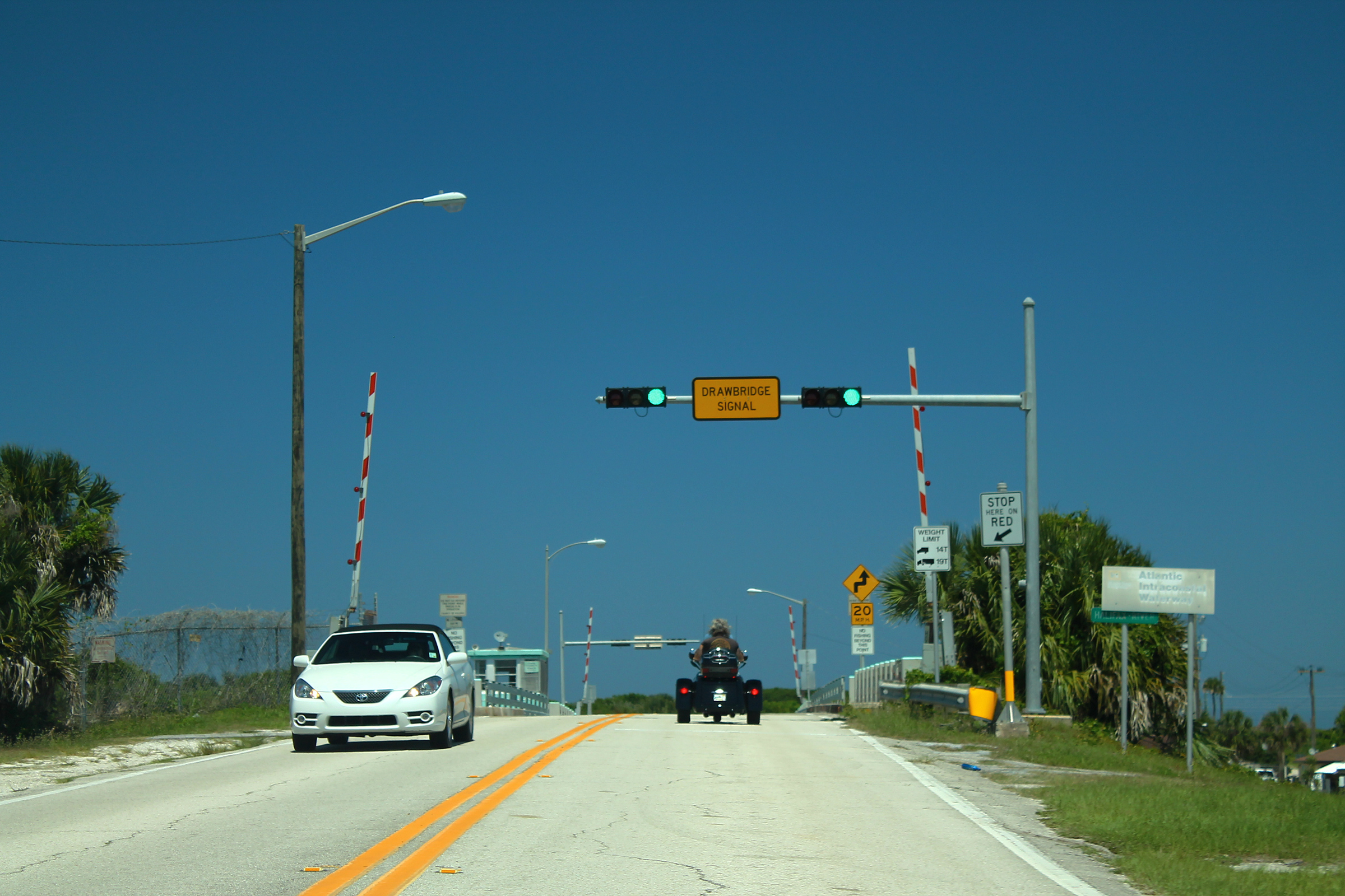 CR2002eOrmondBeachScenicLoop-HalifaxRiverIntracoastal